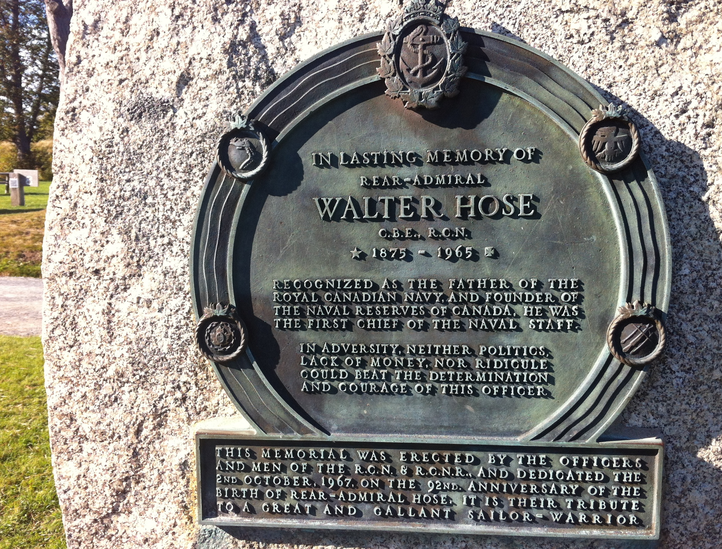 WalterHosePlaque, Point Pleasant Park, HalifaxNovaScotia